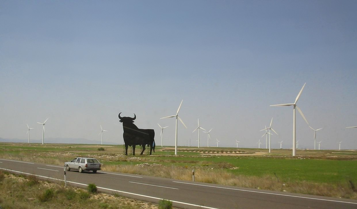 Wind farm in Spain